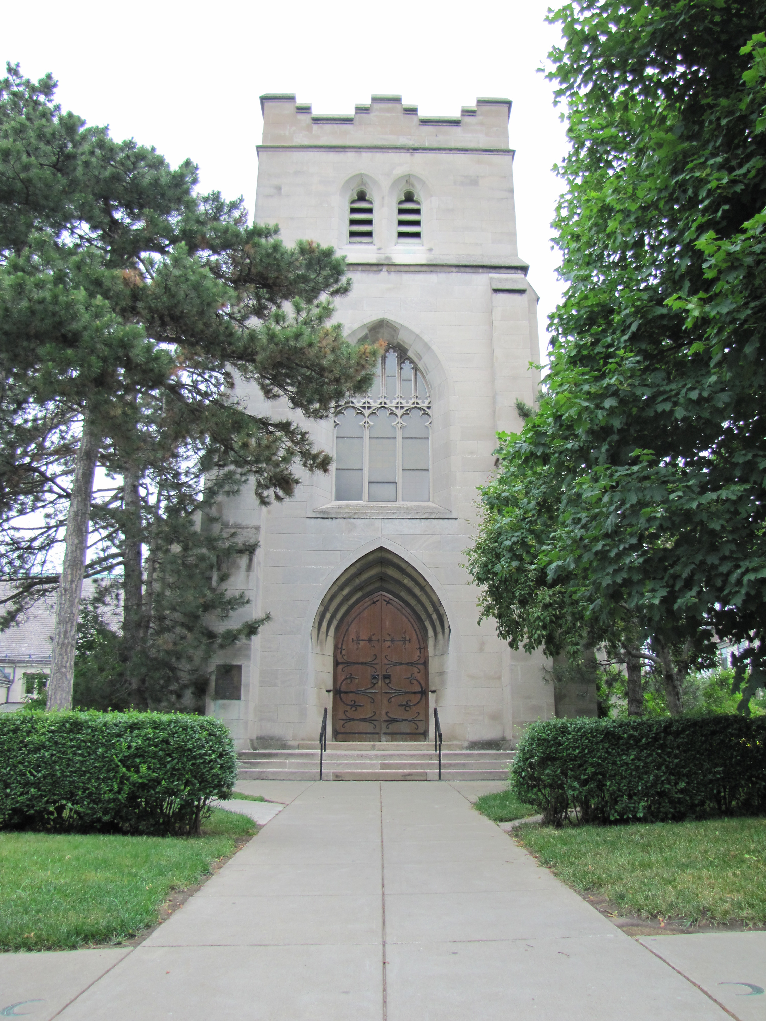 The front entrance to the Unitarian Universalist Church of Buffalo.